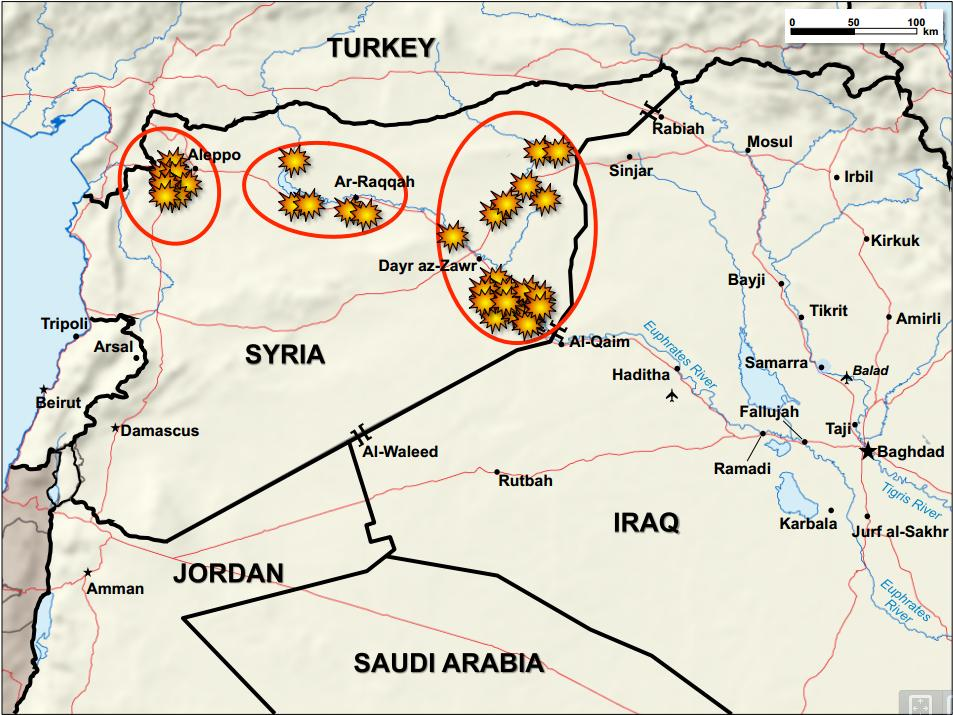 Strikes in Syria and Iraq, Sept. 23, 2014. Unclassified DoD Briefing.